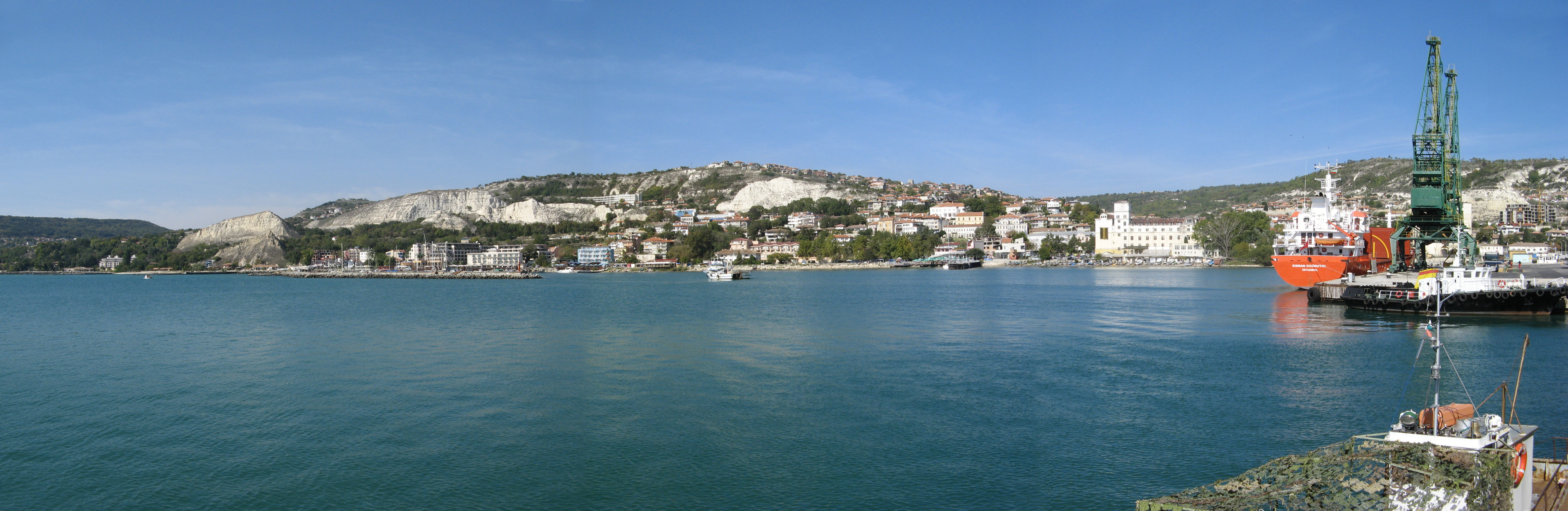 Panorama Balchik